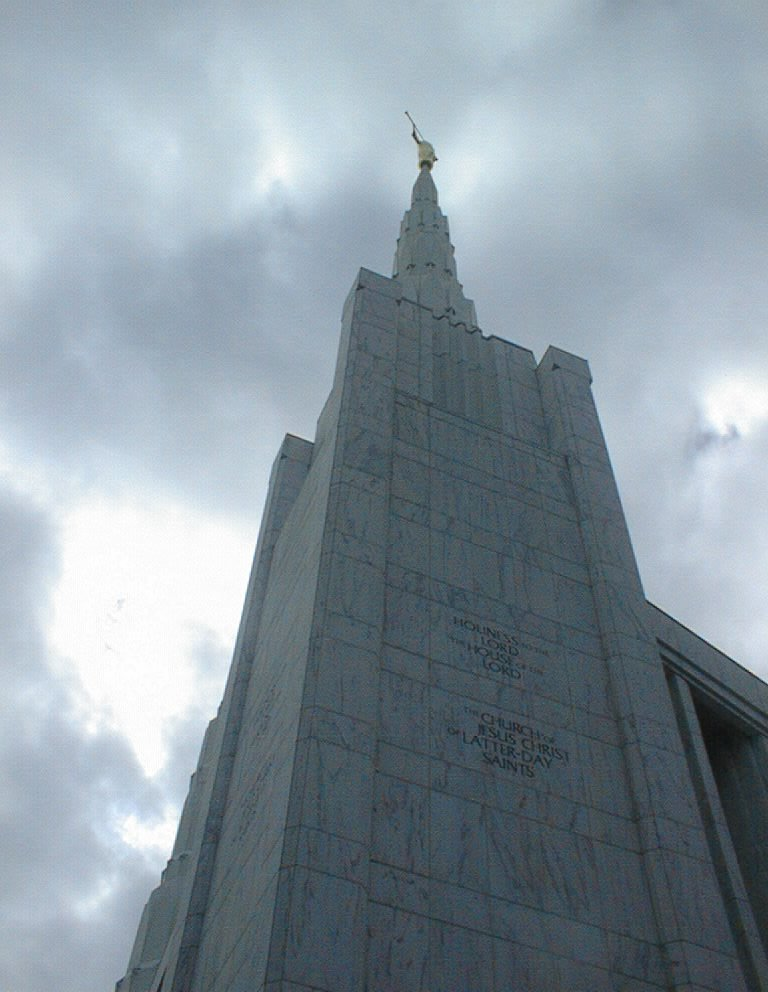 The Portland Oregon Temple of The Church of Jesus Christ of Latter-day Saints